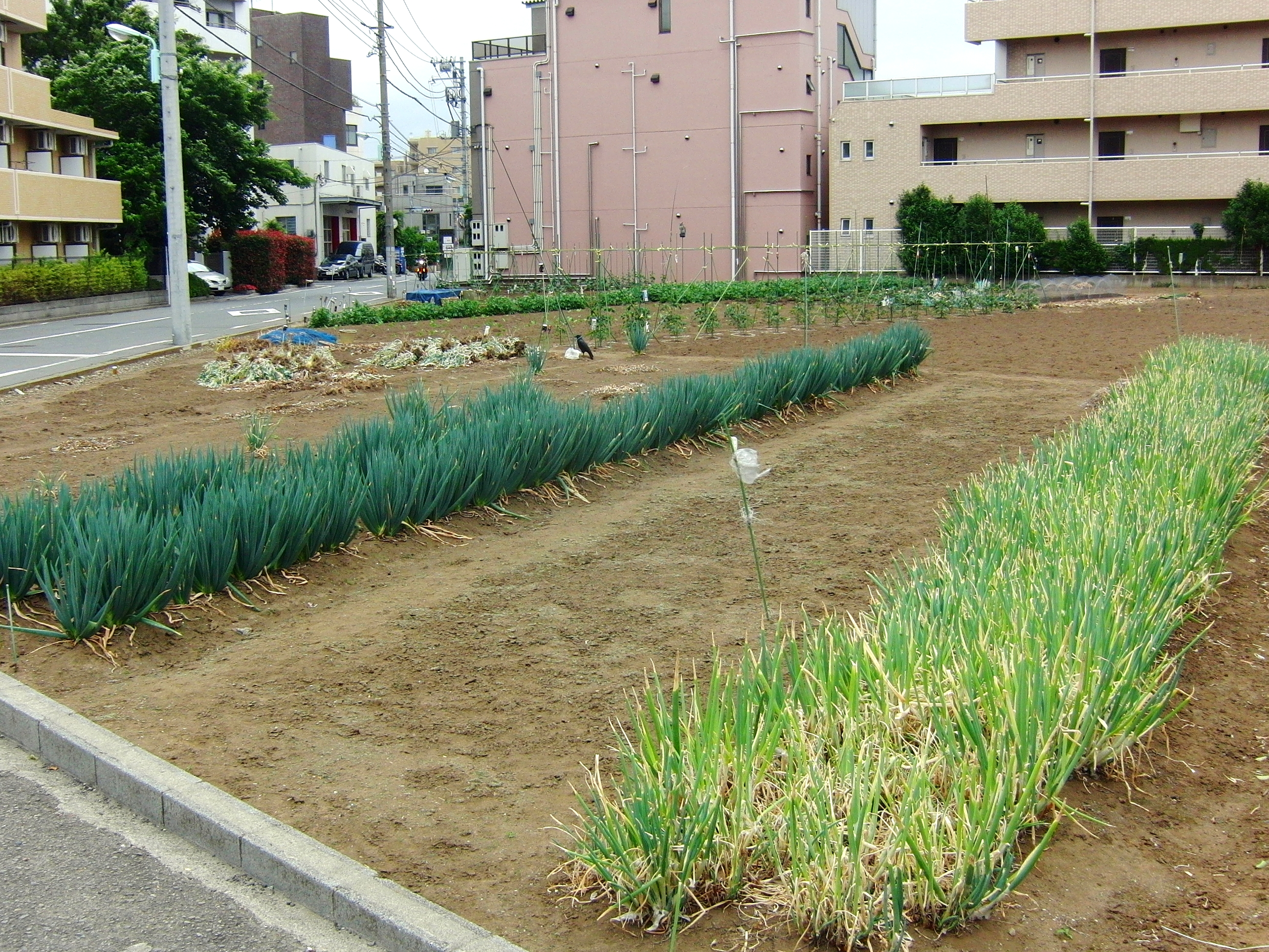 A field in Nerima, Tokyo, Japan.